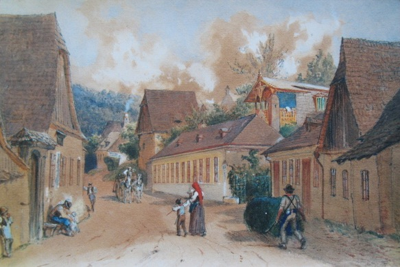 Country estate of the Hartung von Hartungen family at Weidling near Vienna